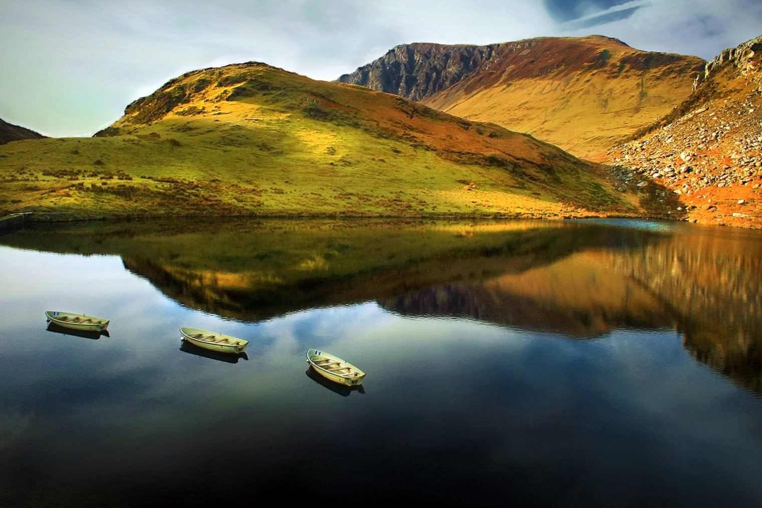 Llyn y Dywarchen above Rhyd Ddu in Snowdonia, Wales.